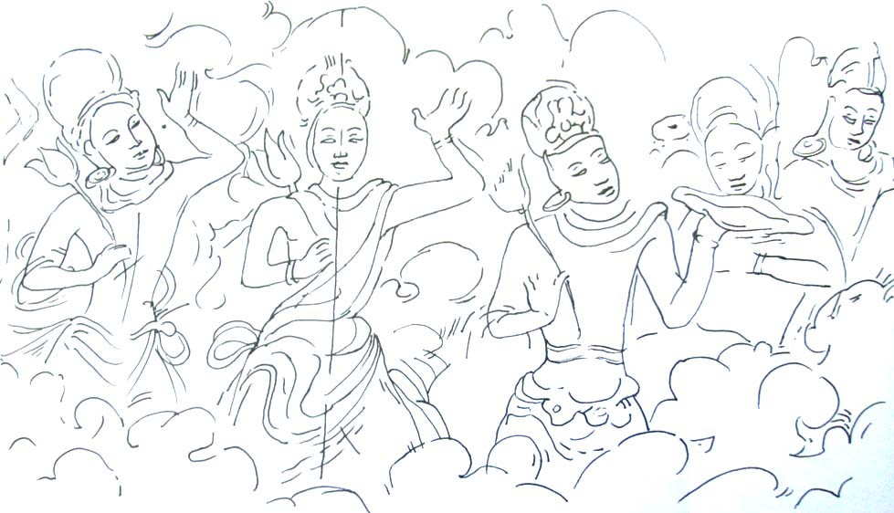 Drawing of an ancient painting found from the relic chamber of a stupa in Mihintale, Sri Lanka. Belongs to later Anuradhapura era. Depicts deities.